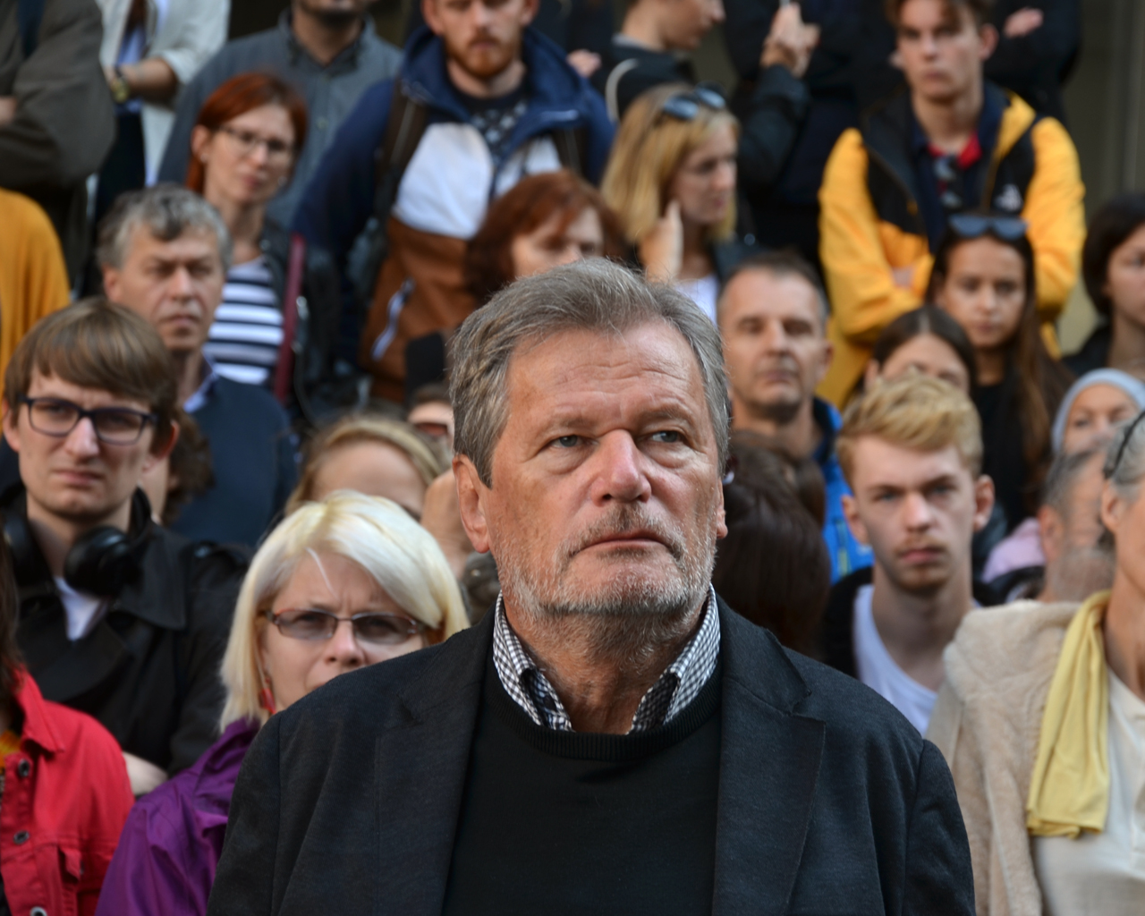 Transgas, the last excursion (arch. Jan Fišer)